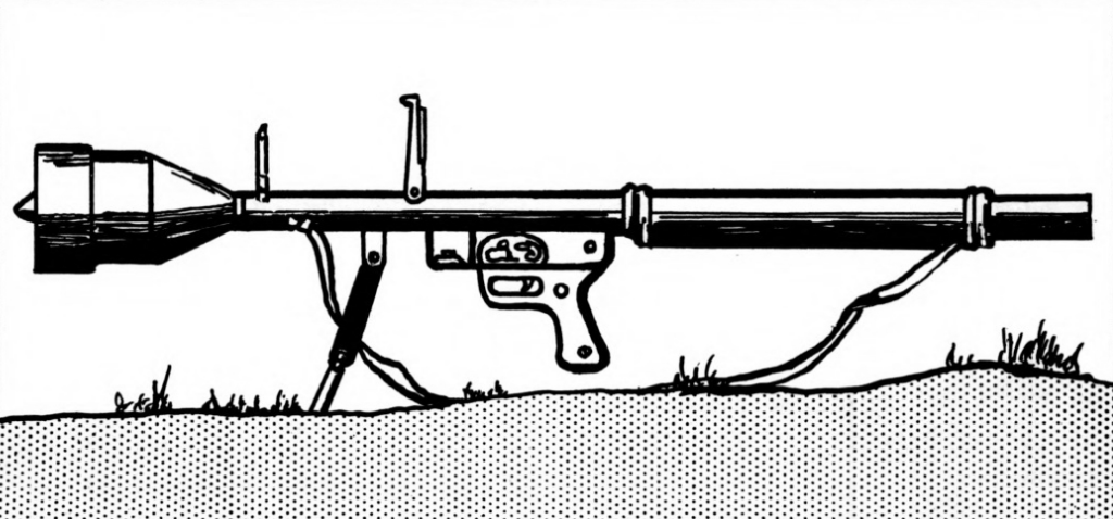 Czechoslovak RPG-based anti-tank grenade launcher raketomet vzor 27 (RKT-27)